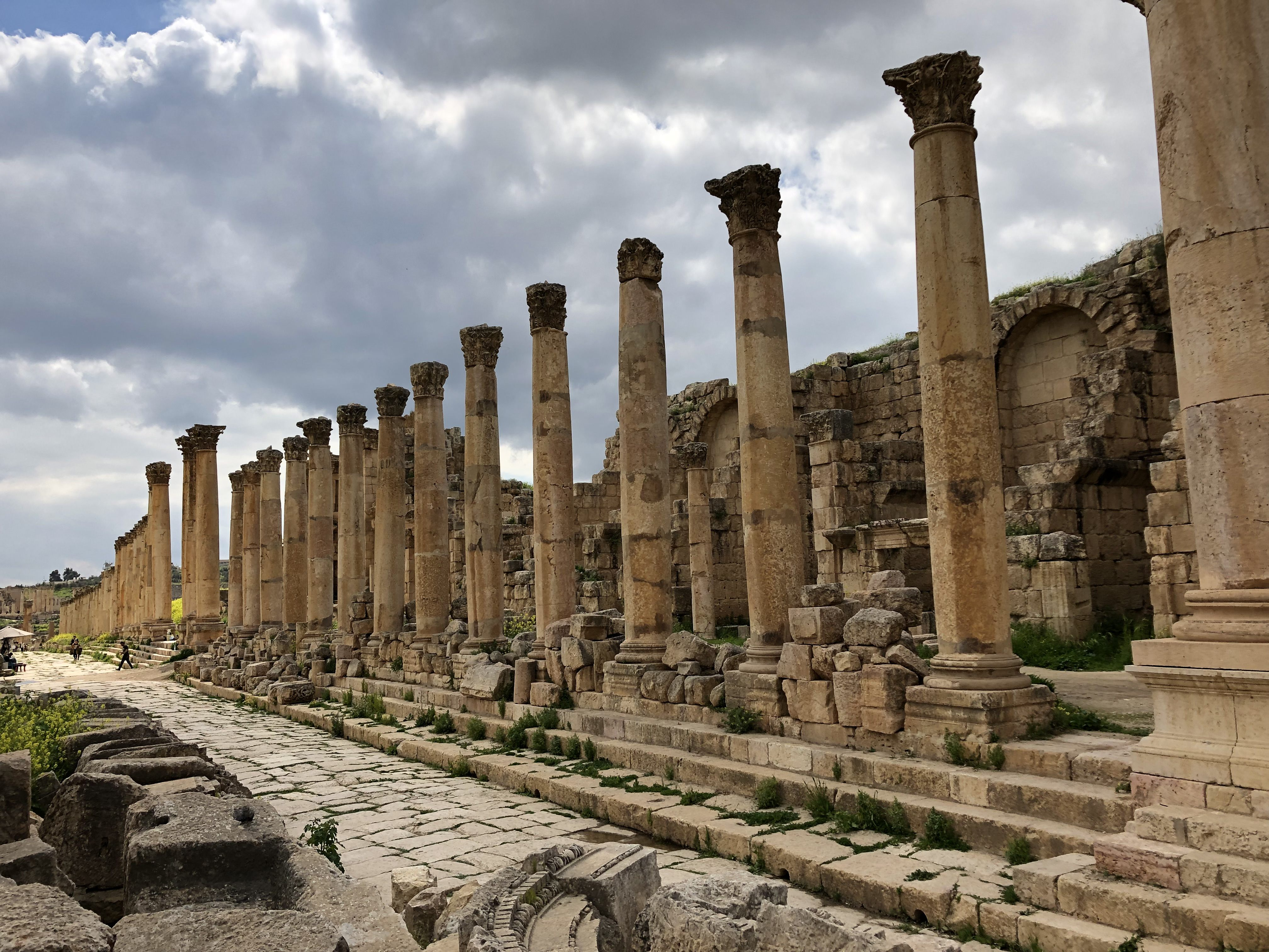 Propylaea low columns